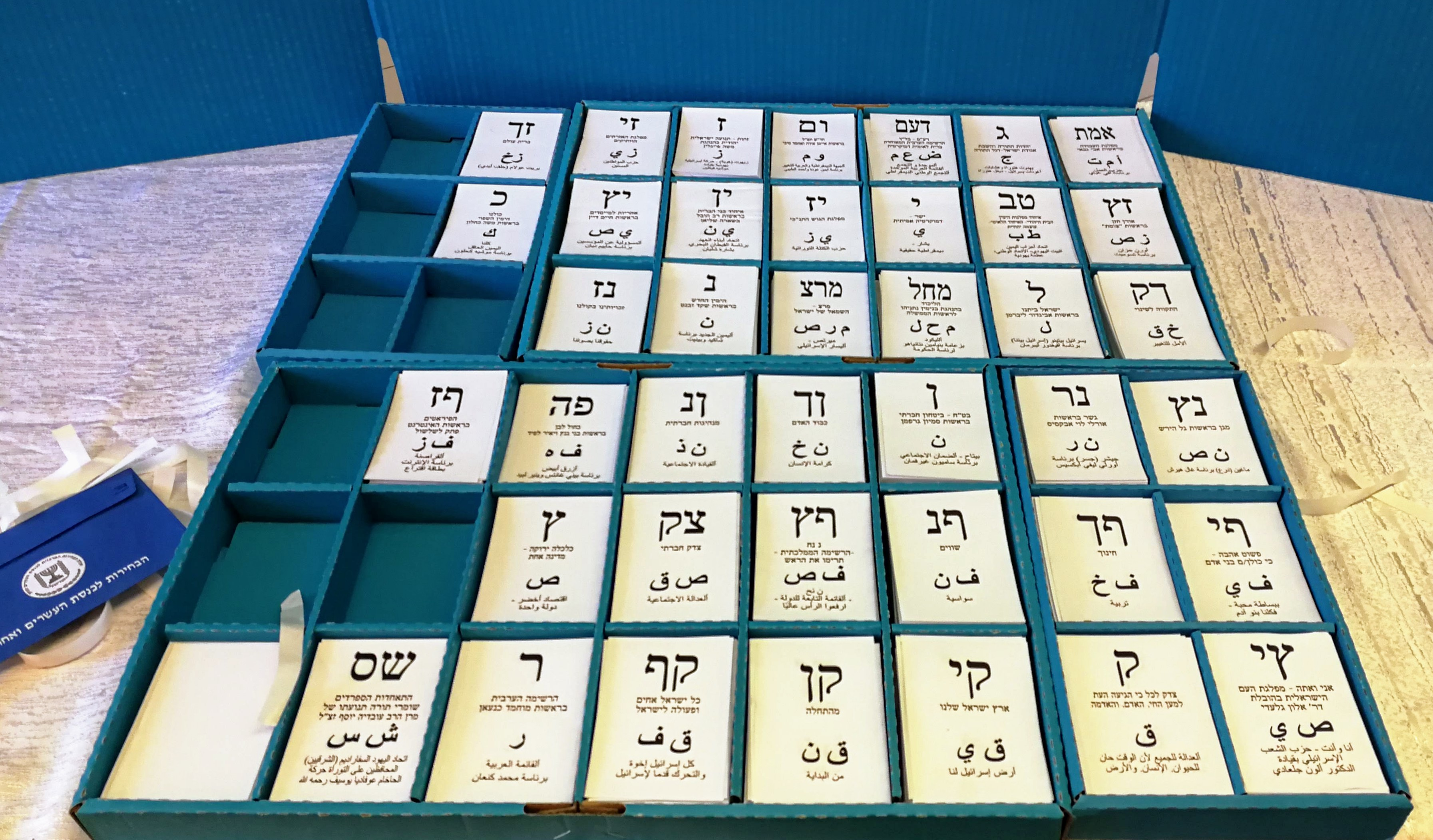 Ballots papers of Israeli legislative election, 2019